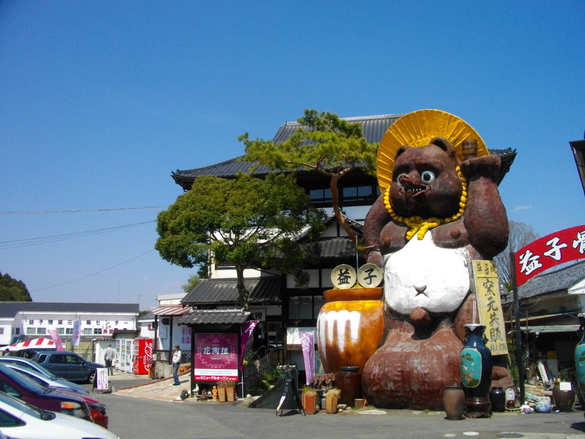 Mashiko Pottery Sales Center